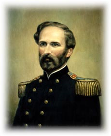 Major Francis W. Capers, Superintendent of The Citadel and later Superintendent of Georgia Military Institute. During the Civil War he was Brigadier General of the division of Georgia troops